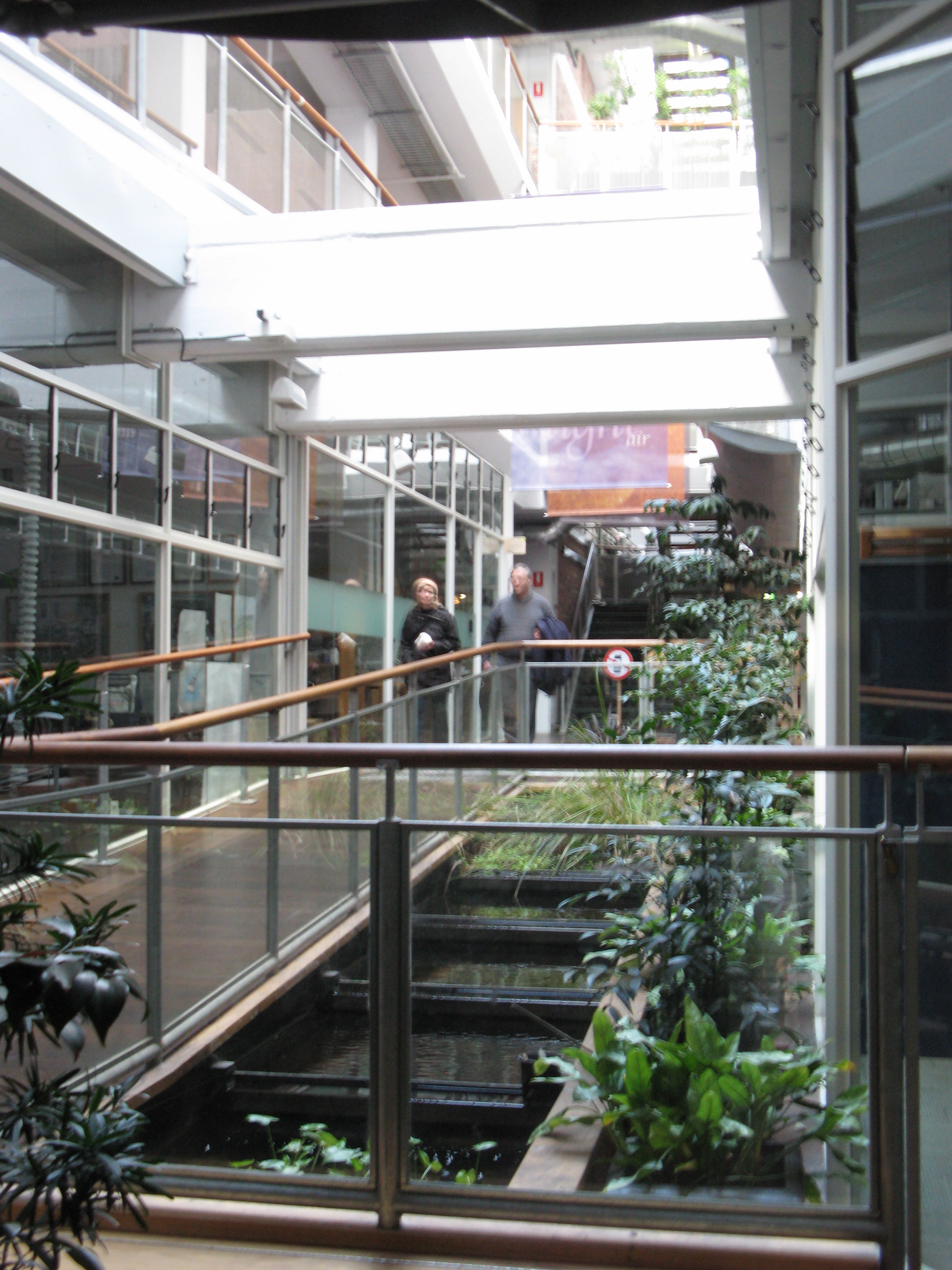 Interior mezzanine and ponds in the 60L Green Building in Melbourne, Australia. Photo taken by Nick carson in September 2010.